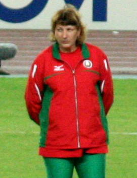 World Athletics Championships 2007 in Osaka - the participants in the women's discus throwing final: Iryna Yatchenko